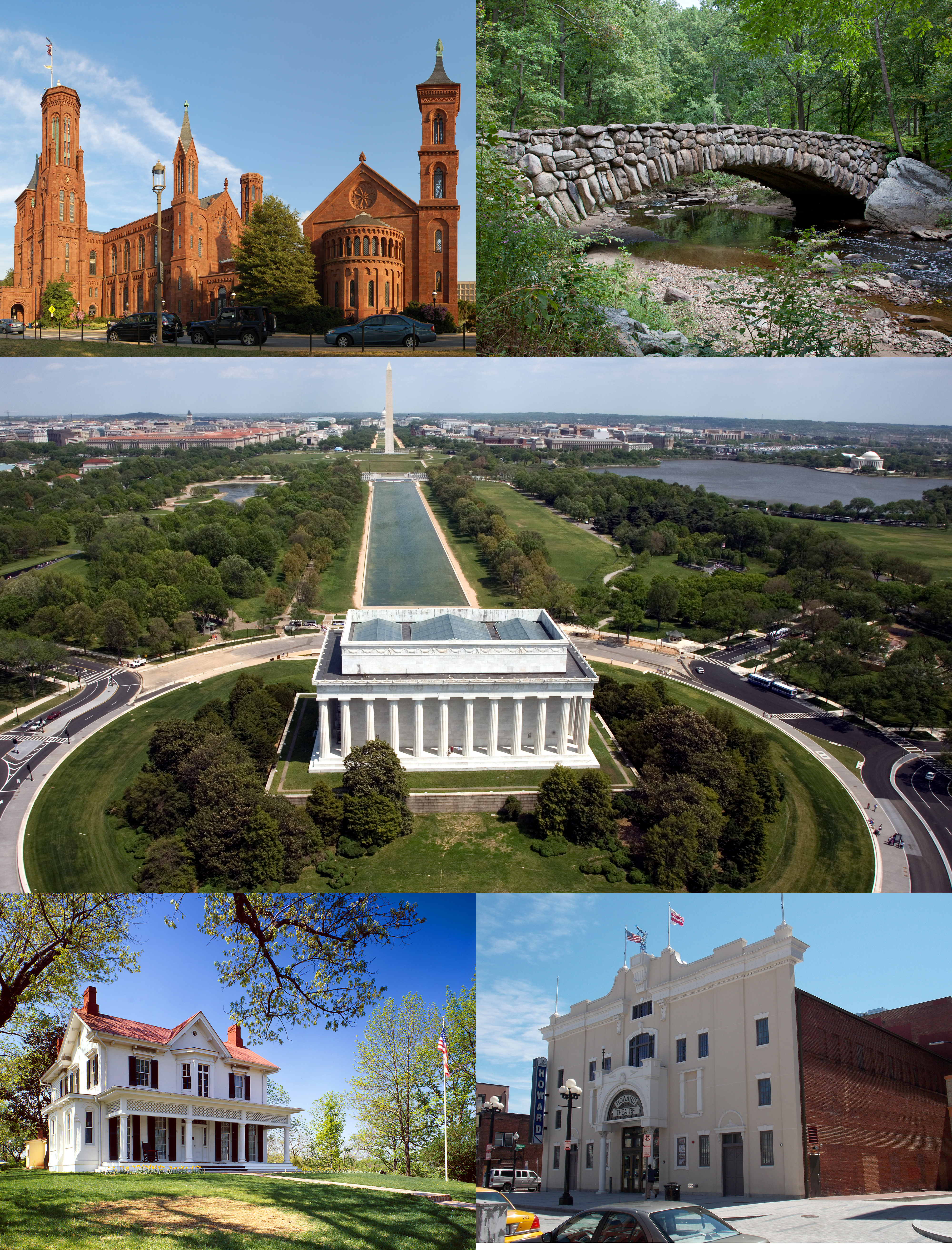 The 6th proposal for the new Washington D.C. montage